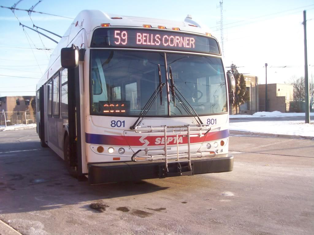 SEPTA New Flyer E40LFR